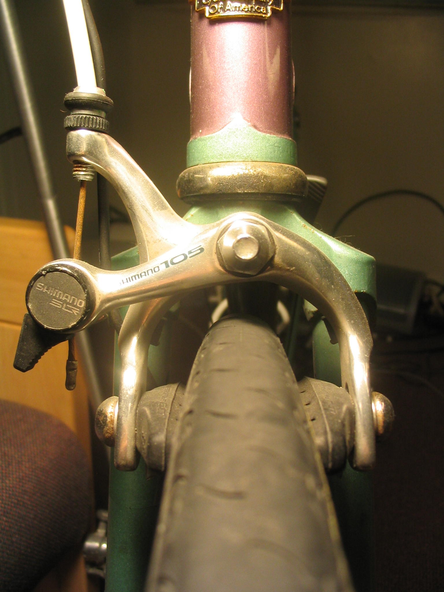 A sidepull caliper brake, shown on front bicycle wheel.